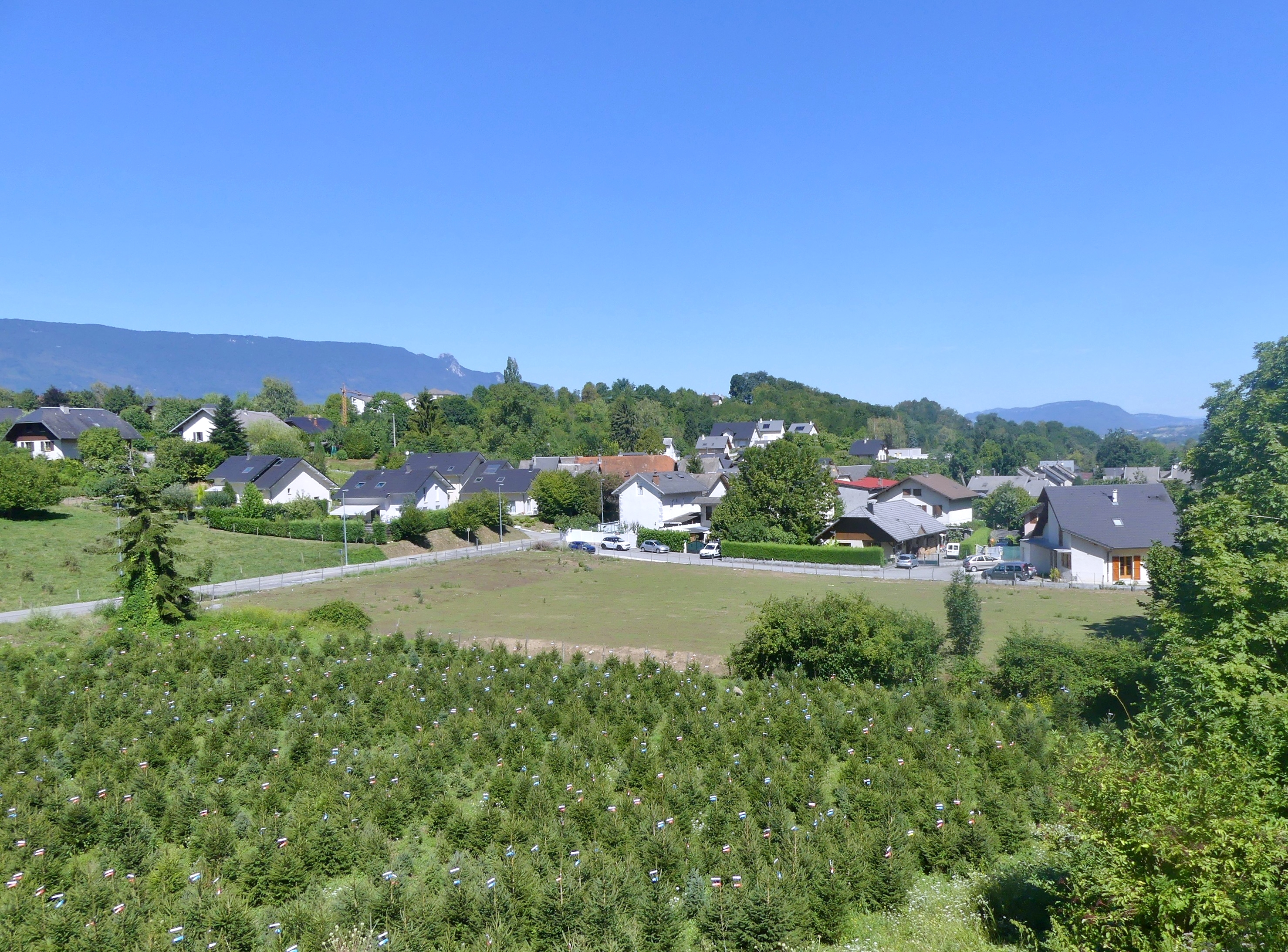 Sight of La Croix-Rouge Dessous hamlet, on the heights of Chambéry in Savoie, France.